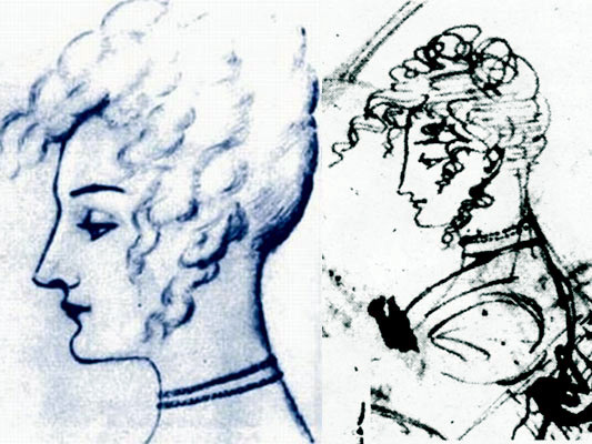 Pushkin's portraits of Karolina Sobanska